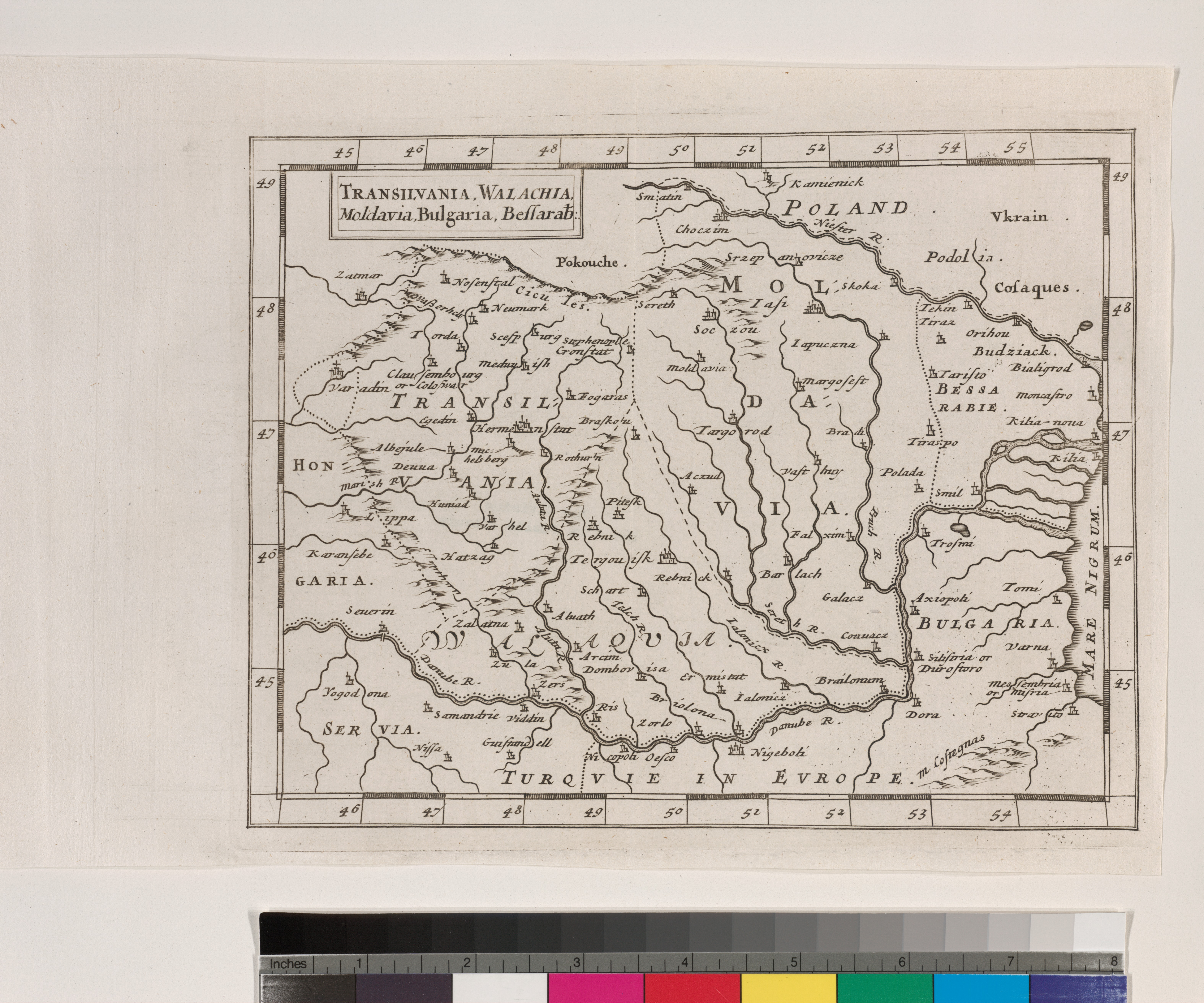 "The sections ... on algebra, Euclid, and navigation [were written] by Perkins, master of the ... school; while Flamsteed communicated the astronomical tables."--Dict. nat. biog. cf. also Pref. Copy in Map Div. 97-6214: Lawrence H. Slaughter Collection. Lawrence H. Slaughter Collection ; 3012. National Endowment for the Humanities Grant for Access to Early Maps of the Middle Atlantic Seaboard. Printed in sections, 1678 or 9-1681, and edited after the author's death by W. Hanway and J. Potenger. Several sections have special title-pages dated 1680. Title-page to [v. 1] printed in red and black; added t.-p. engraved by N. Yeates.